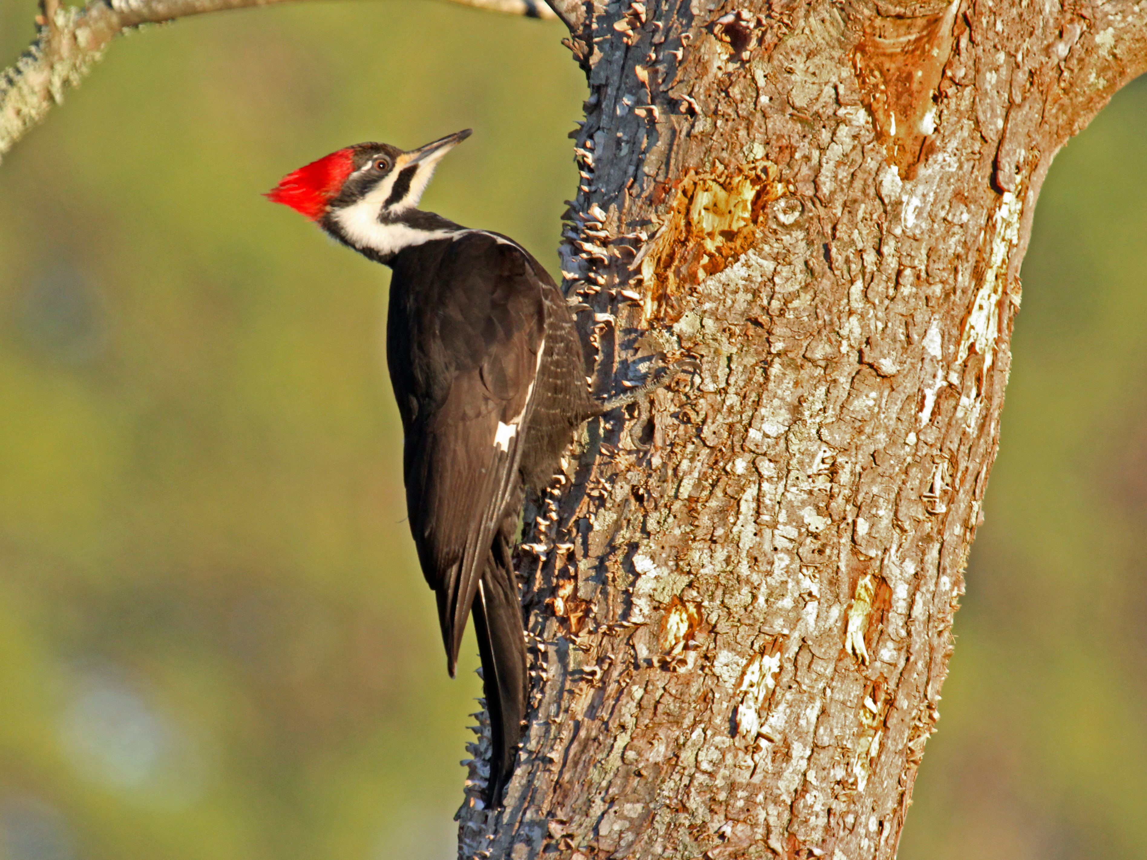 Female Pileated Woodpecker (Dryocopus pileatus) - Ash, North Carolina